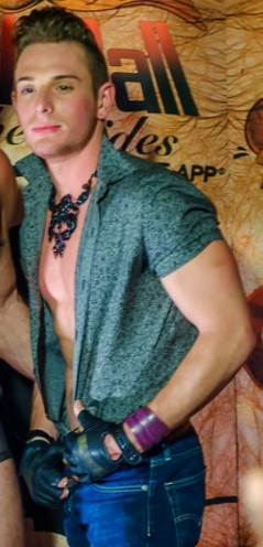 Brent Corrigan at Hustlaball NYC 2014